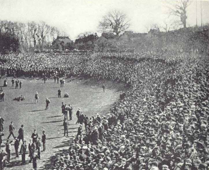 A section of the crowd, estimated to be over 110,000.